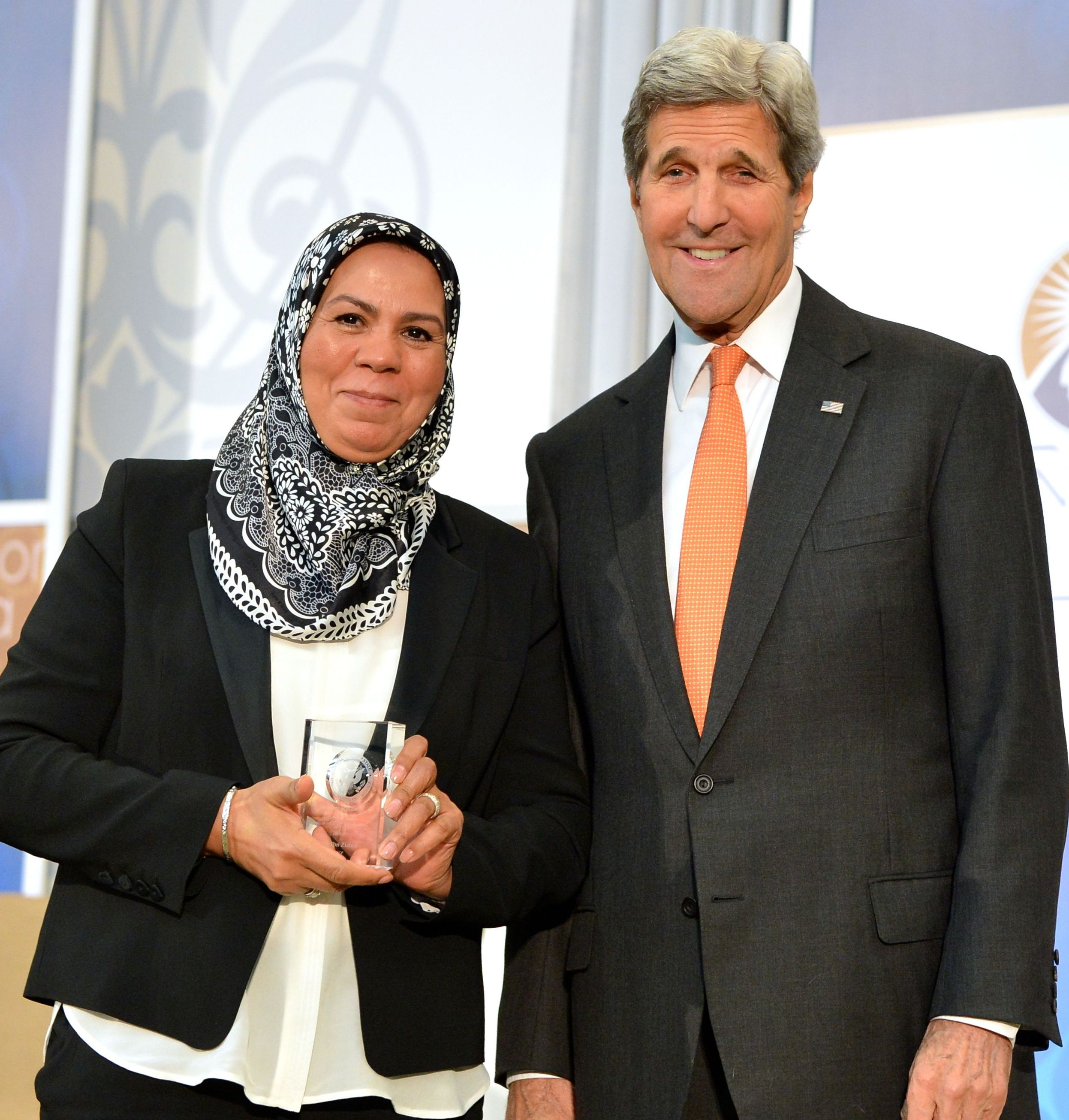 International Women of Courage Awards 2016